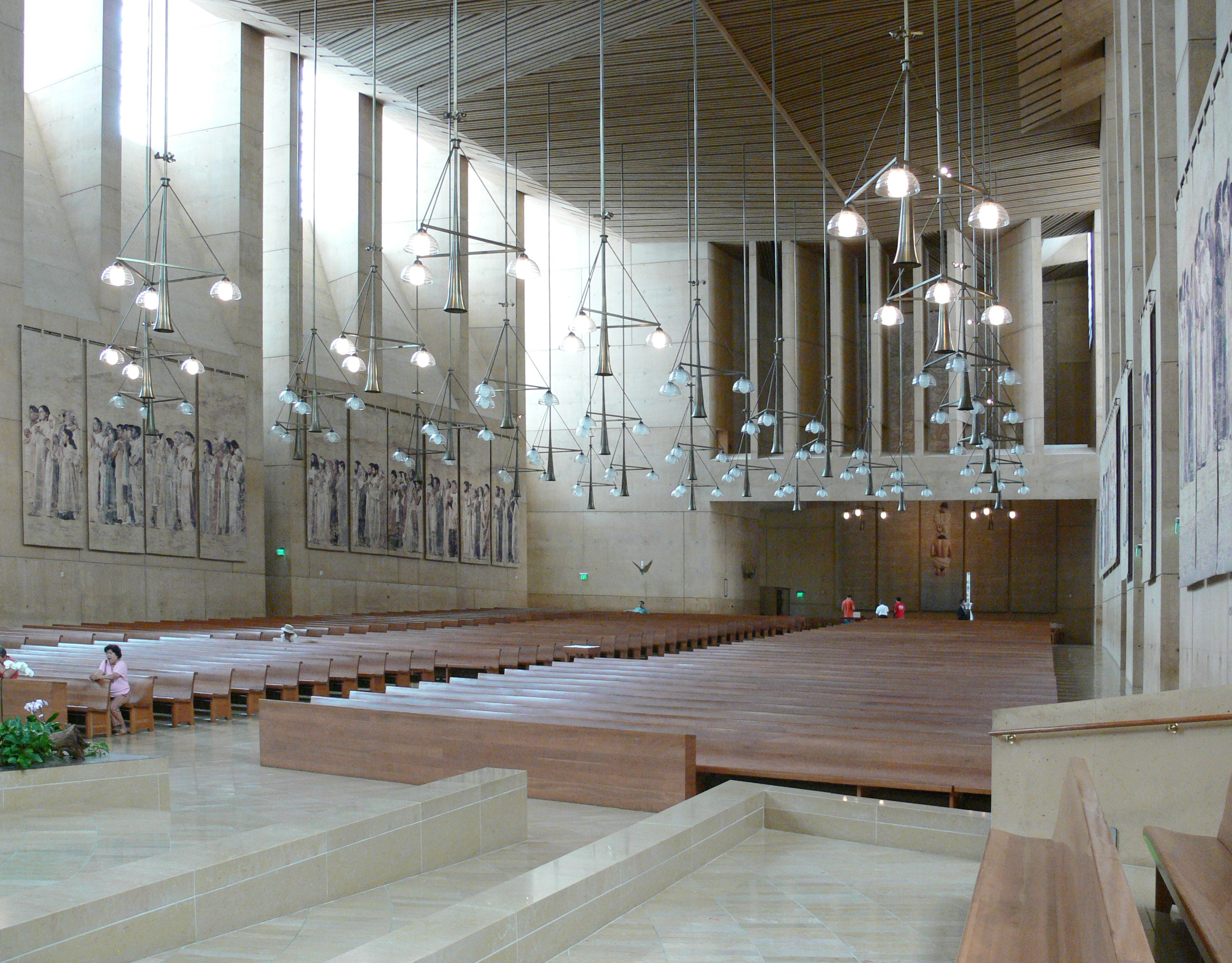 Roman Catholic Cathedral of Our Lady of the Angels, Los Angeles, California Main nave